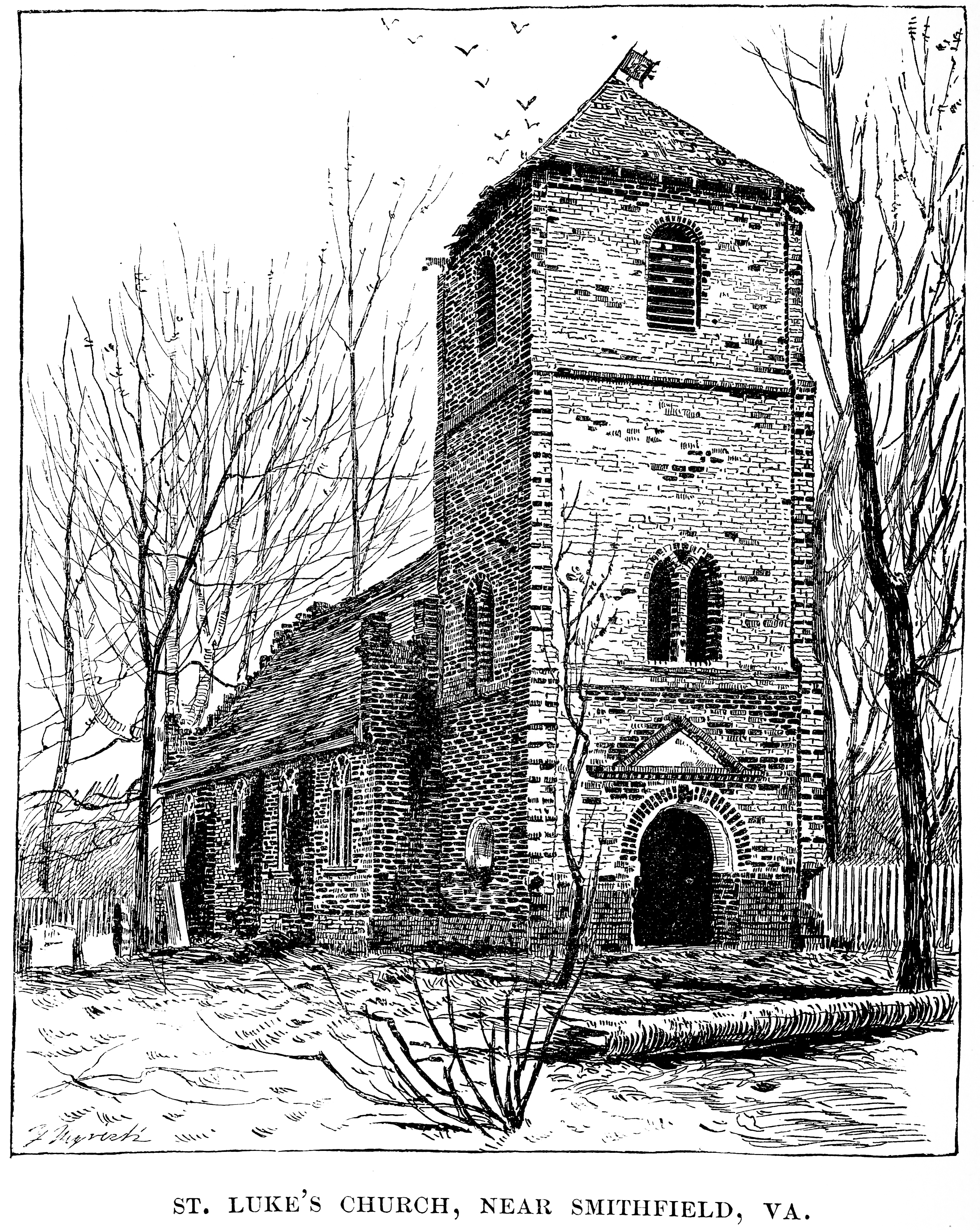 St. Luke's Church, Smithfield, VA. Source: The History: American Episcopal Church 1587-1883 by William Stevens Perry, Vol 1 (1885)